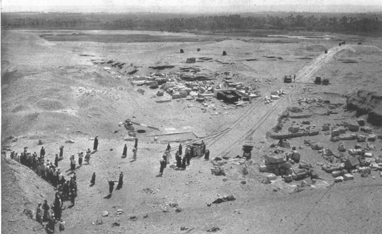 View from the Pyramid of Senusret I over the mortuary temple during the ongoing excavation of 1908/09